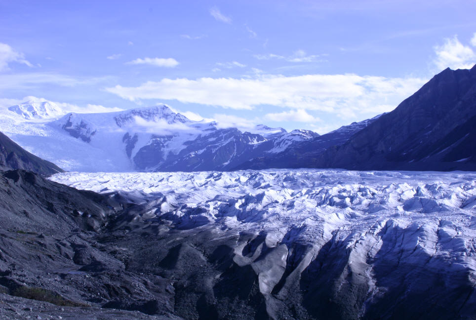 Root Glacier in Wrangell-St. Elias National Park, Alaska, U.S.